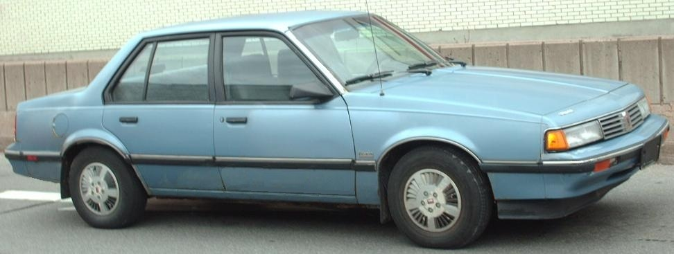 1988 Oldsmobile Firenza photographed in Montreal, Quebec, Canada.